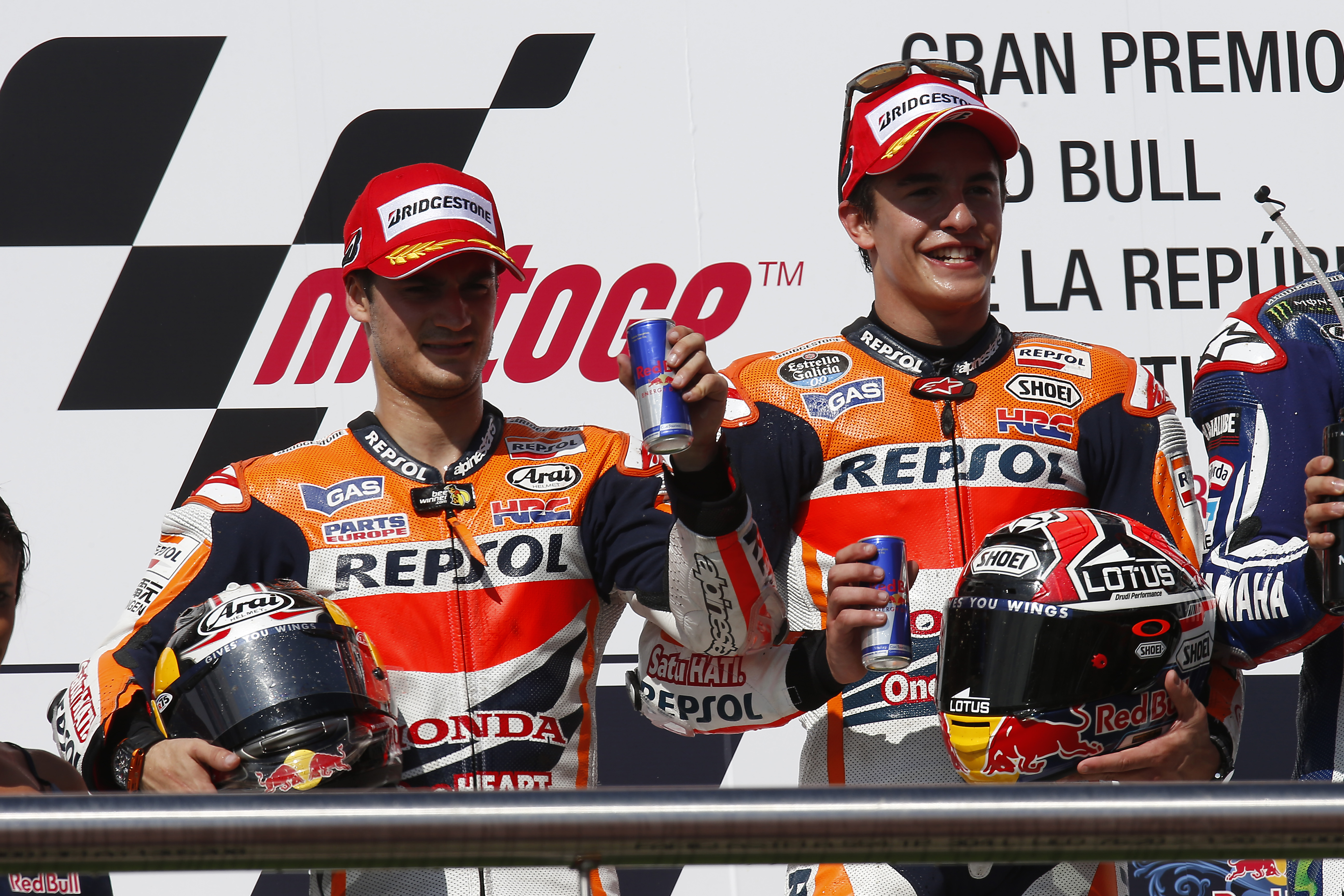 Dani Pedrosa and Marc Márquez, celebrating on the podium after finishing in second and first place at the 2014 Argentine Grand Prix.